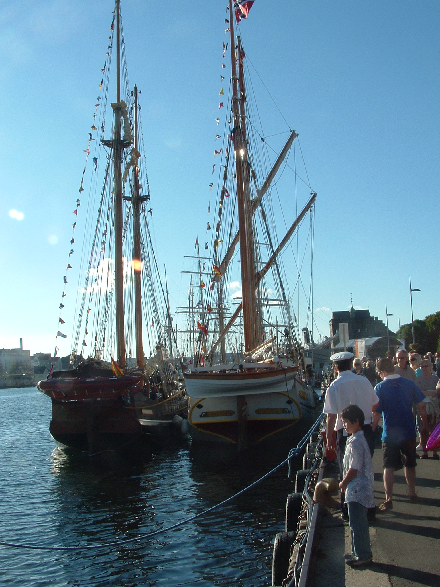 Galeas "Loyal" (Norway) and schooner "Far Barcelona" (Spain) are sister hulls, both Norwegian built and differs mainly in the present day rigging, Loyal inside. From Tall Ships 08 in Bergen